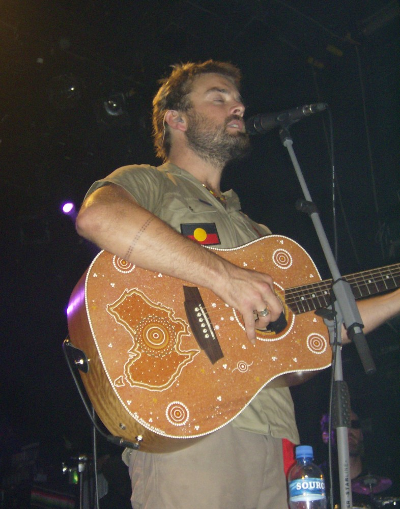 Xavier Rudd, live in Utrecht, July 3, 2008